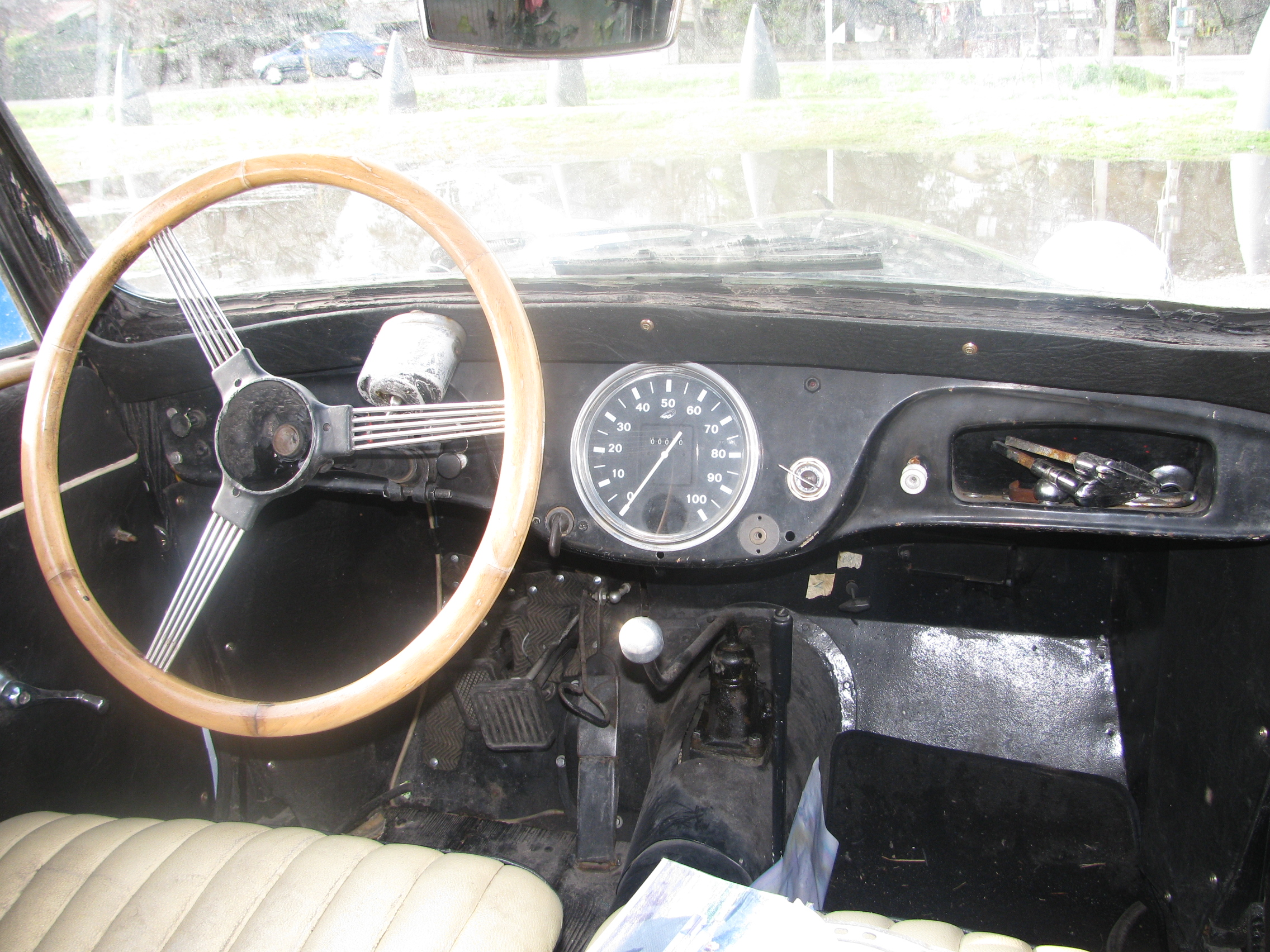 Tatra T57B in Zamárdi, Hungary. The car is not restored and some components might not be original.